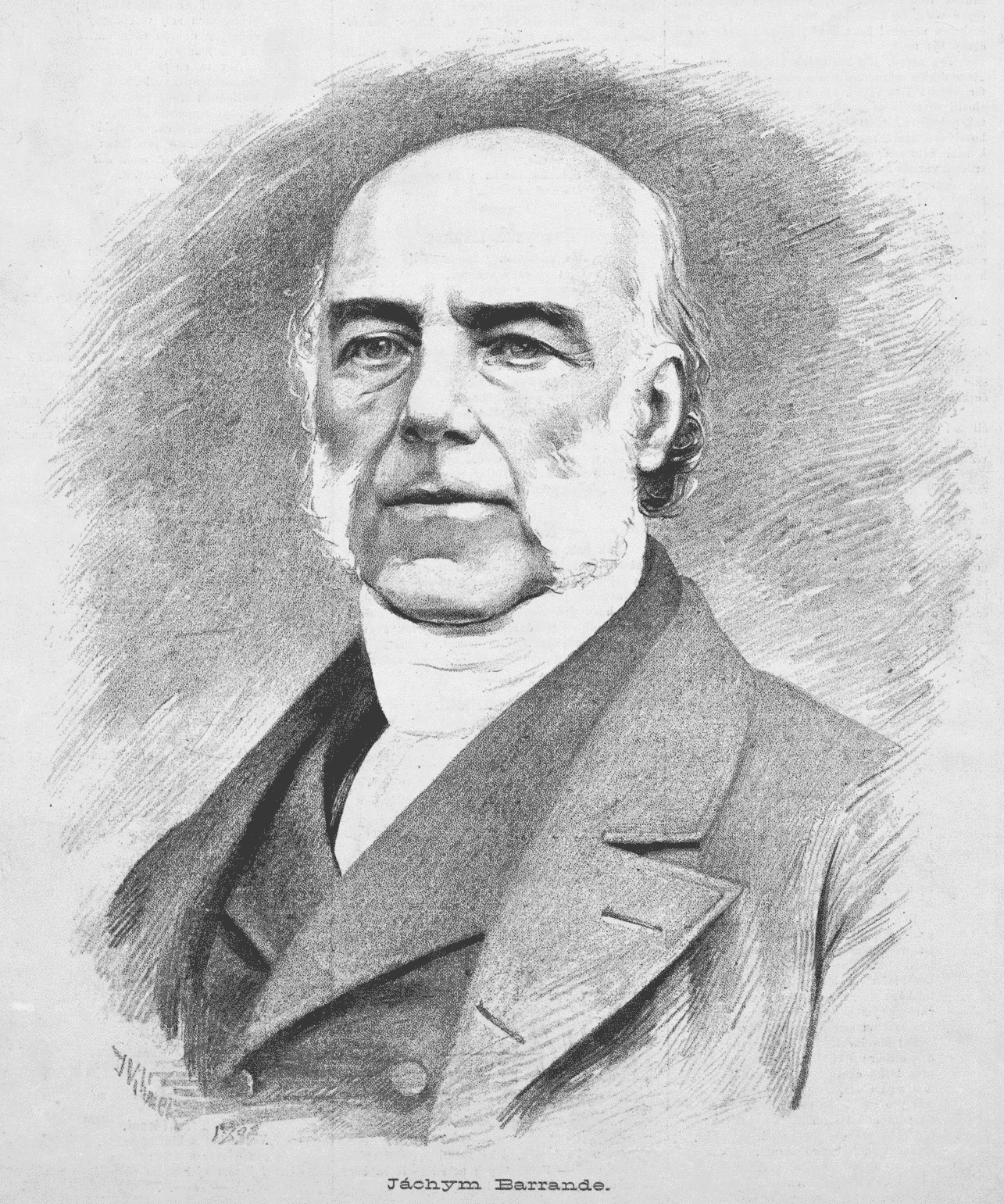 Portrait of Joachim Barrande, French geologist and palaeontologist